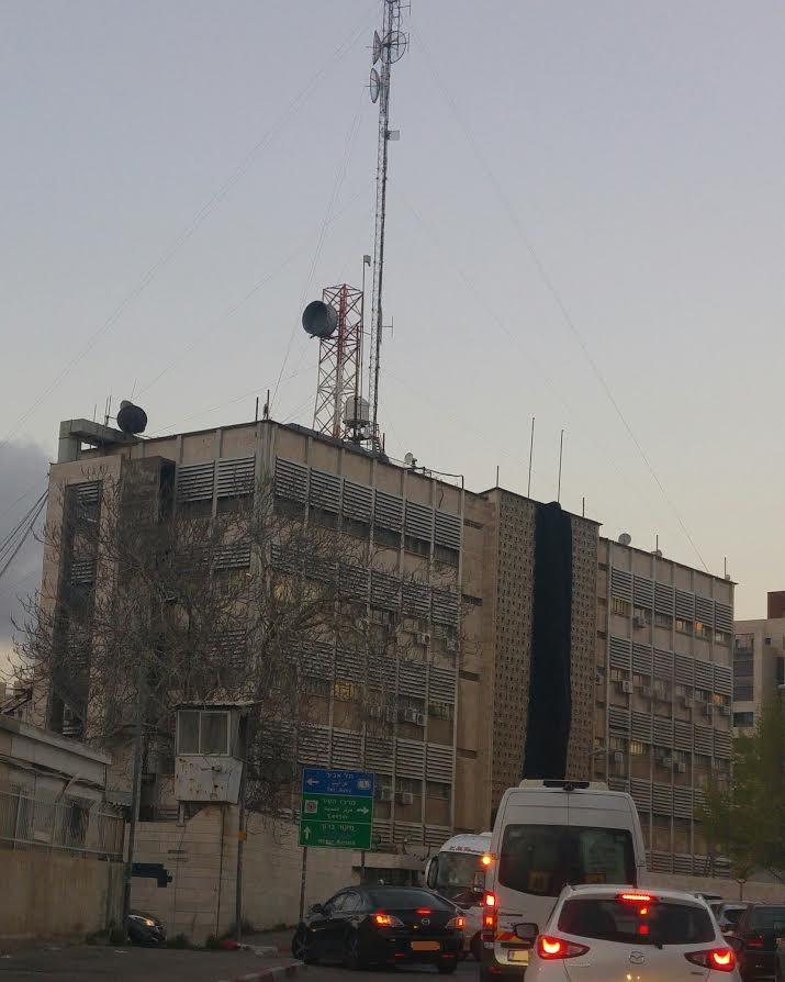 Israeli Television Building in Jerusalem with black ribbon in protest of the closing act of the IBA